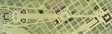 "Plan for the Fairmount Parkway" - Philadelphia Museum of Art at left and City Hall at right